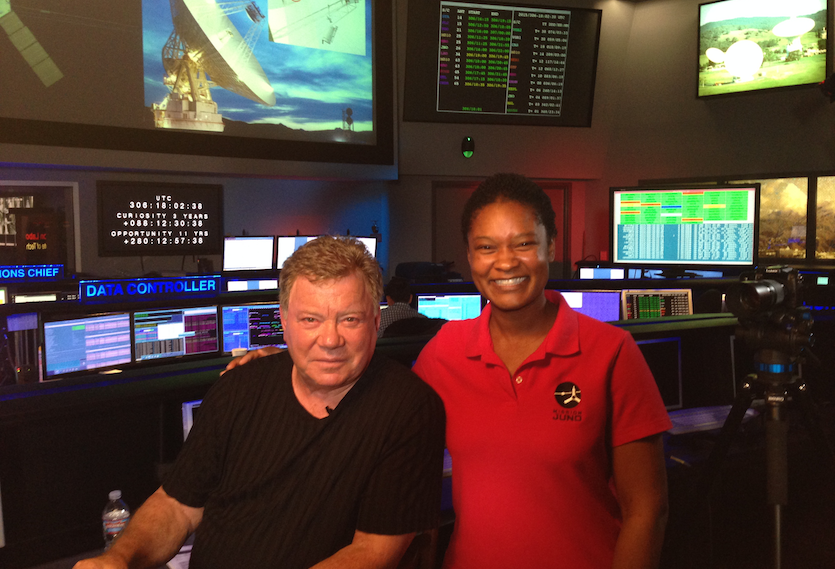 Canadian actor William Shatner with NASA Flight Systems Engineer Tracy Drain in the the Space Flight Operations Facility at NASA's Jet Propulsion Laboratory in Pasadena, California. Circa 2016.